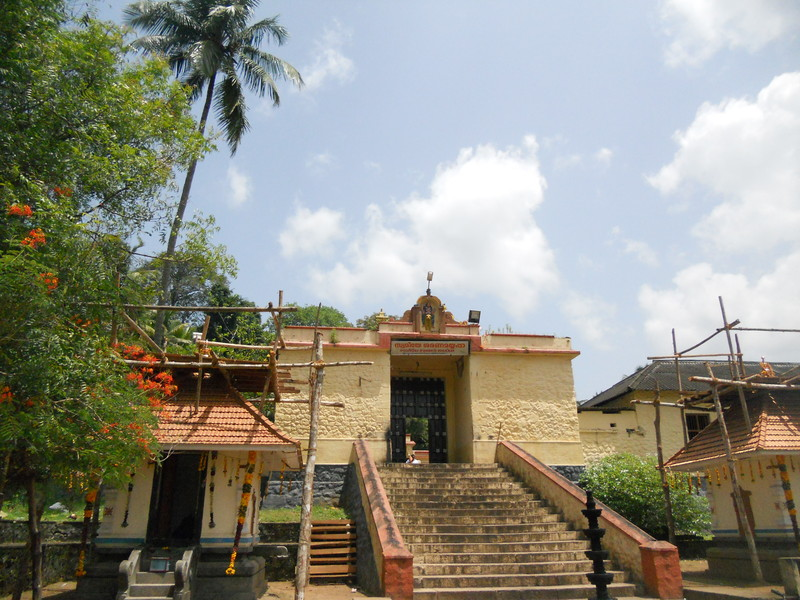 ACHENCOVIL DHARMA SASTHA TEMPLE